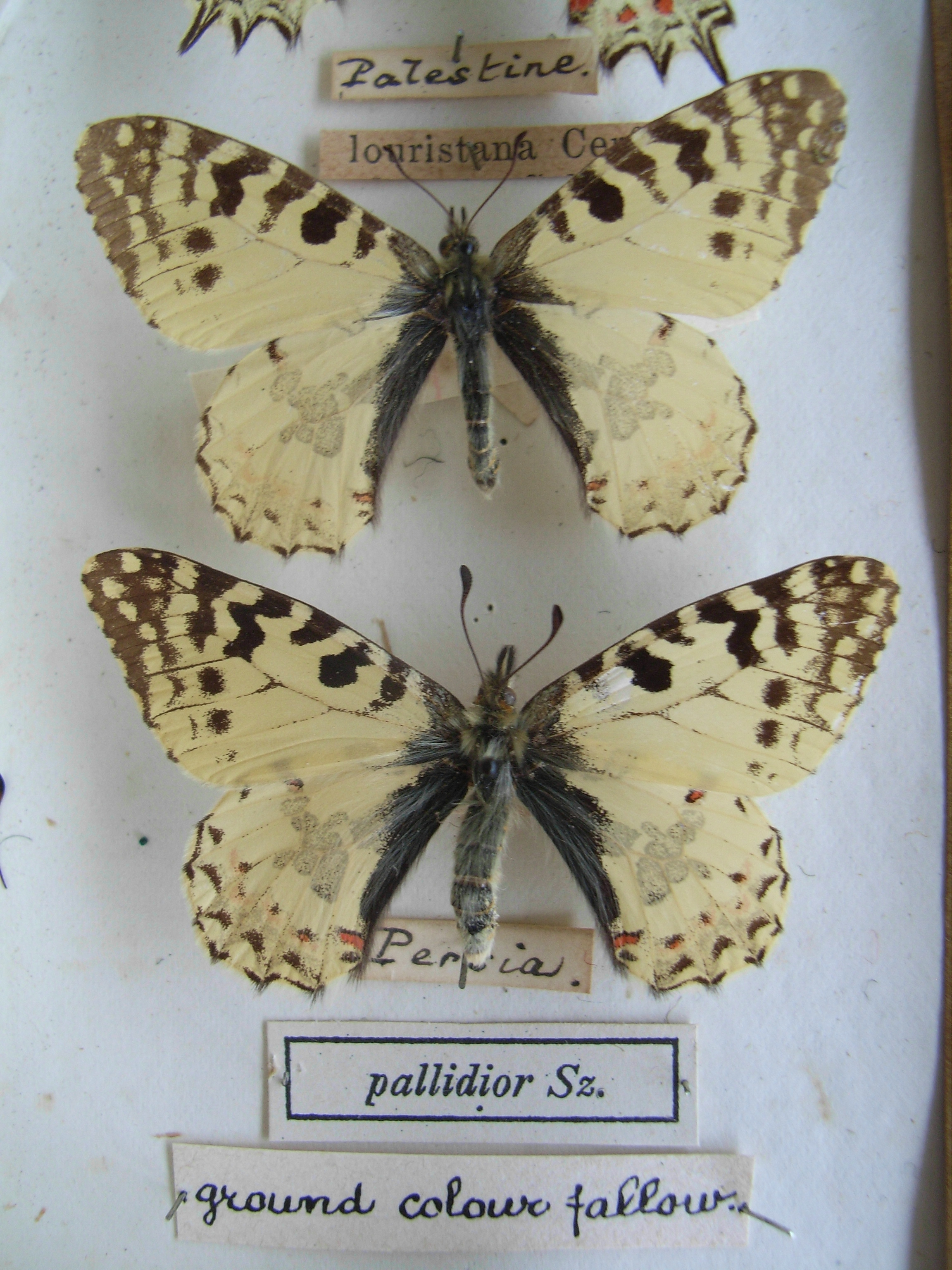 Allancastria lourisitana